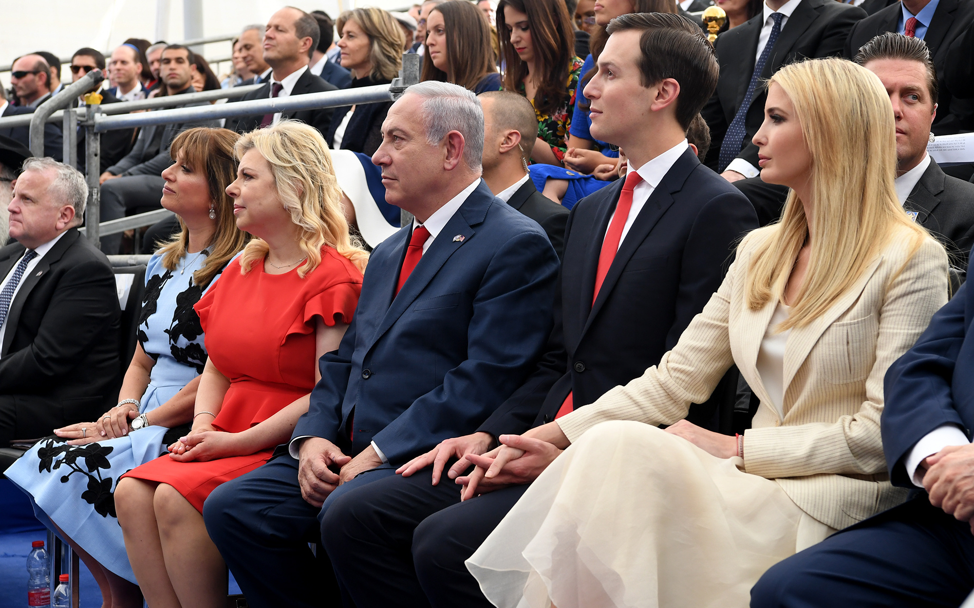 Embassy Dedication Ceremony